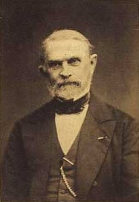 Danish politician, Mayor of Copenhagen, Governor of the West Indies, Johan Frederik Schlegel (1817-1896)